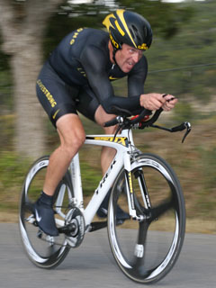 Cyclist Lance Armstrong at the 2008 Tour de Gruene Individual Time Trial, 1 November 2008